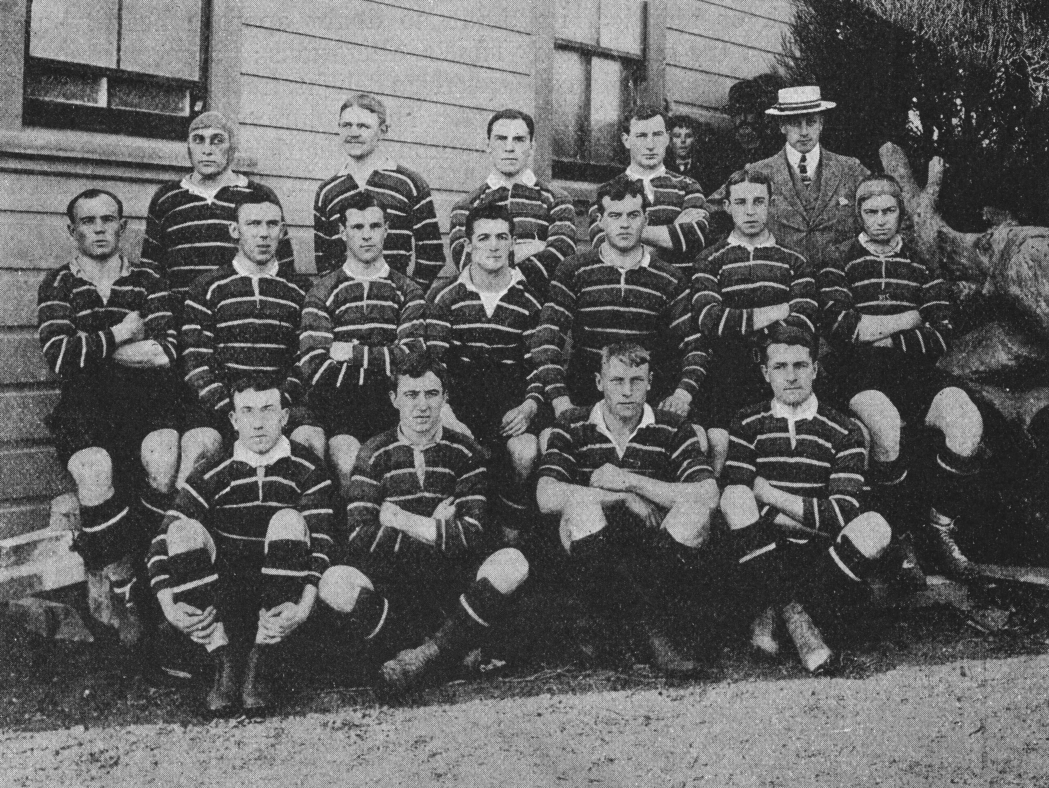 The British Isles team that toured Australia and New Zealand.